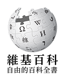 Wikipedia logo 2.0 (zh-hant). Note: Uses Source Han Serif.